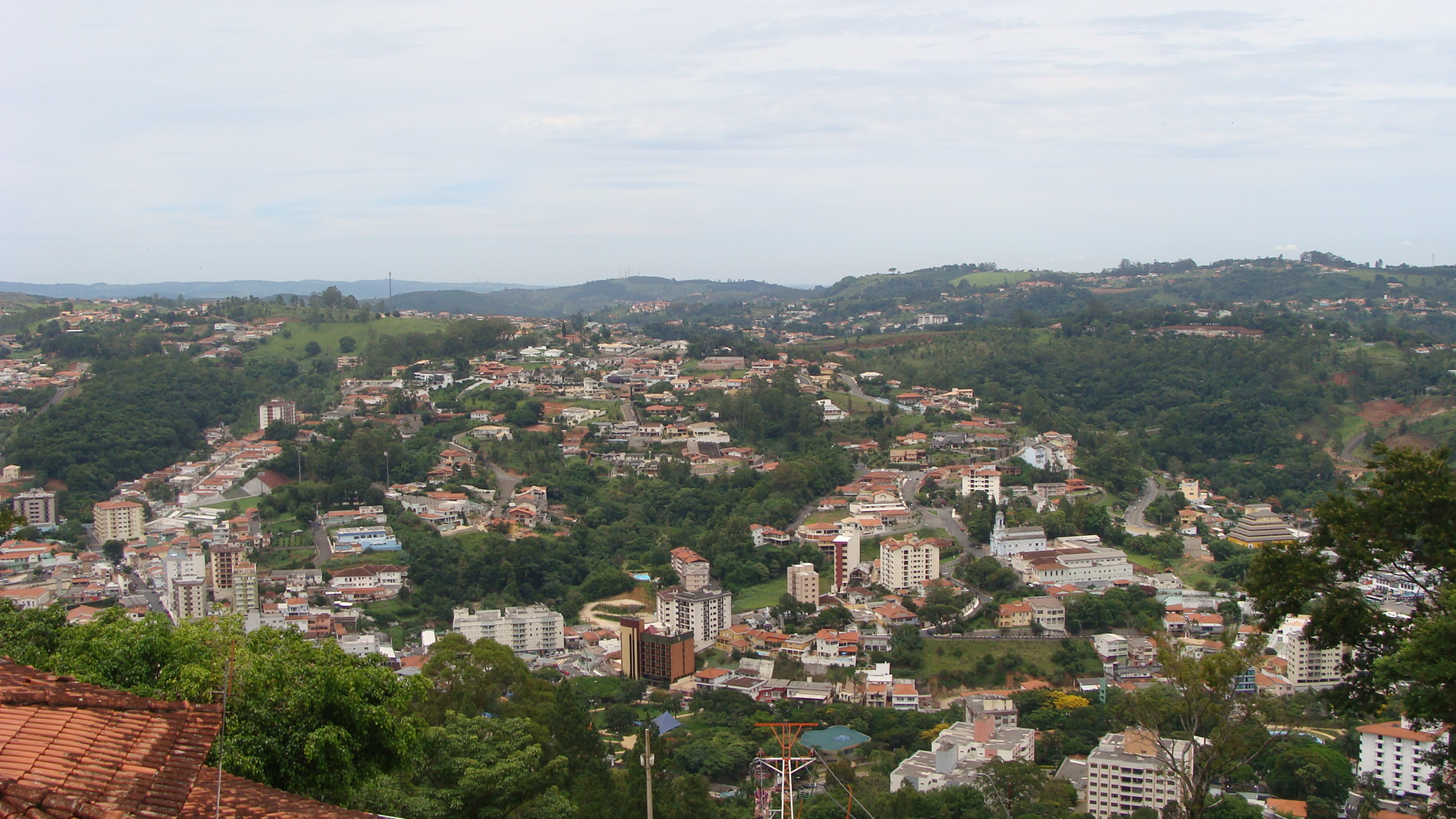 A landscape view of Serra Negra municipality, São Paulo, Brazil, as of December 2012.